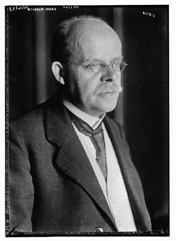 Chancellor of Germany Wilhelm Marx, (see mirror-inverted handwritten dates on the top: 5/12/24 12/26/23)